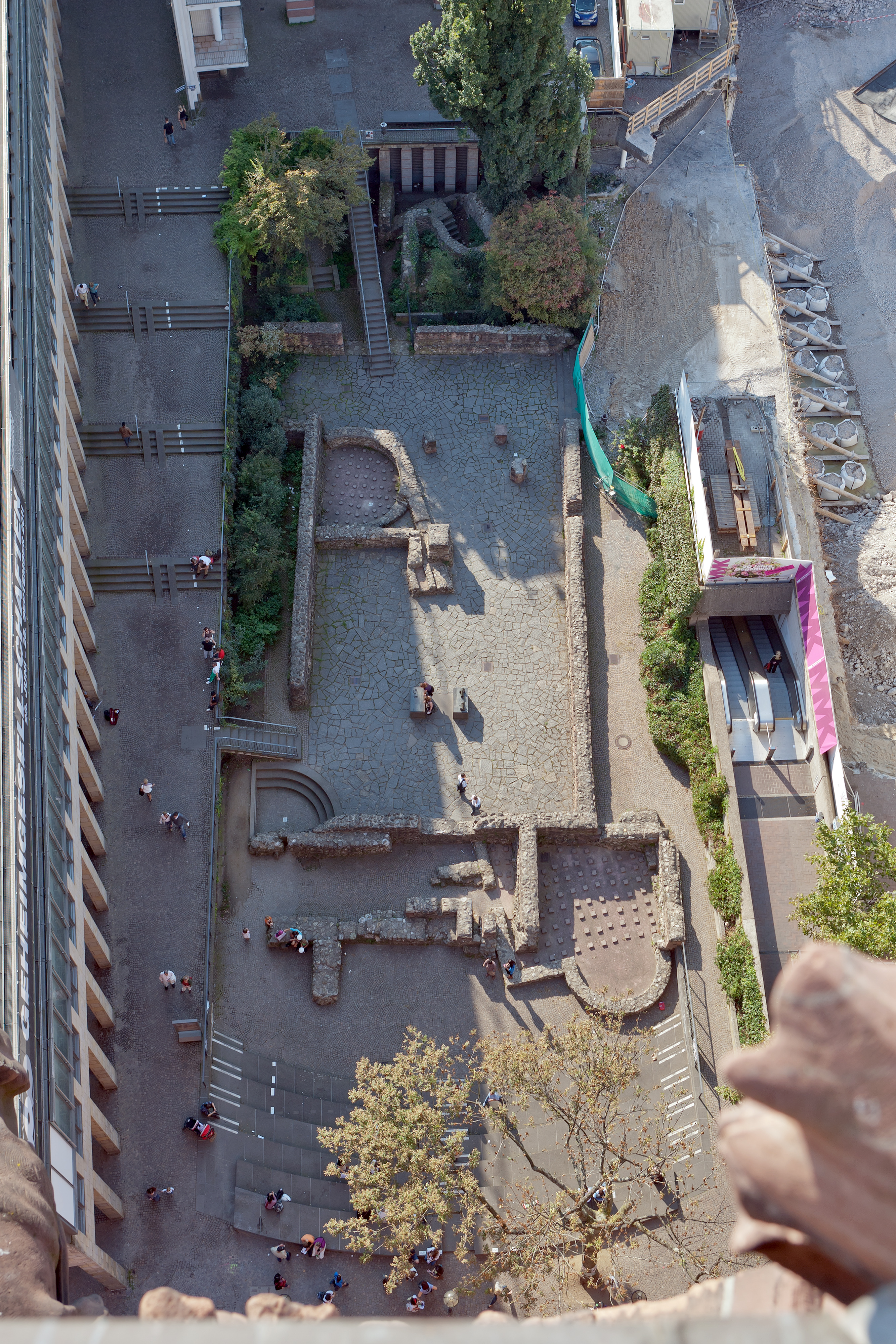 Frankfurt on the Main: Archäologischer Garten (Archaeological Garden) as seen from the tower of Kaiserdom St. Bartholomaeus (Frankfurt Cathedral)